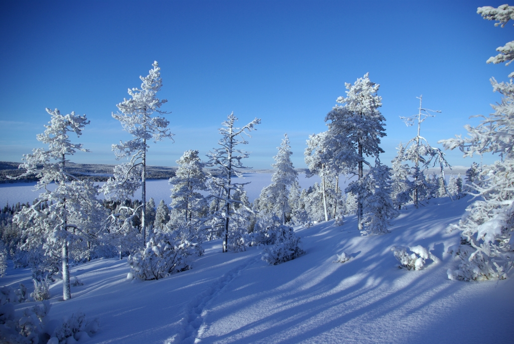 A view to the lake Iso-Vietonen from the mountainside of Liinankivaara in the Ylitornio municipality.